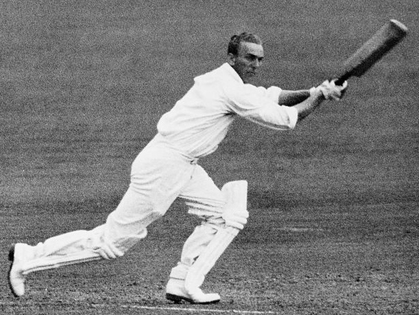 Joe Hardstaff junior batting for England during his innings of 94 in the 2nd Test match between England and All India at Old Trafford in Manchester, 26th July 1936. The Indian wicketkeeper is Khershed Meherhomji.